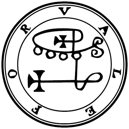 Valefor seal, THE BOOK OF THE GOETIA OF SOLOMON THE KING (1904)